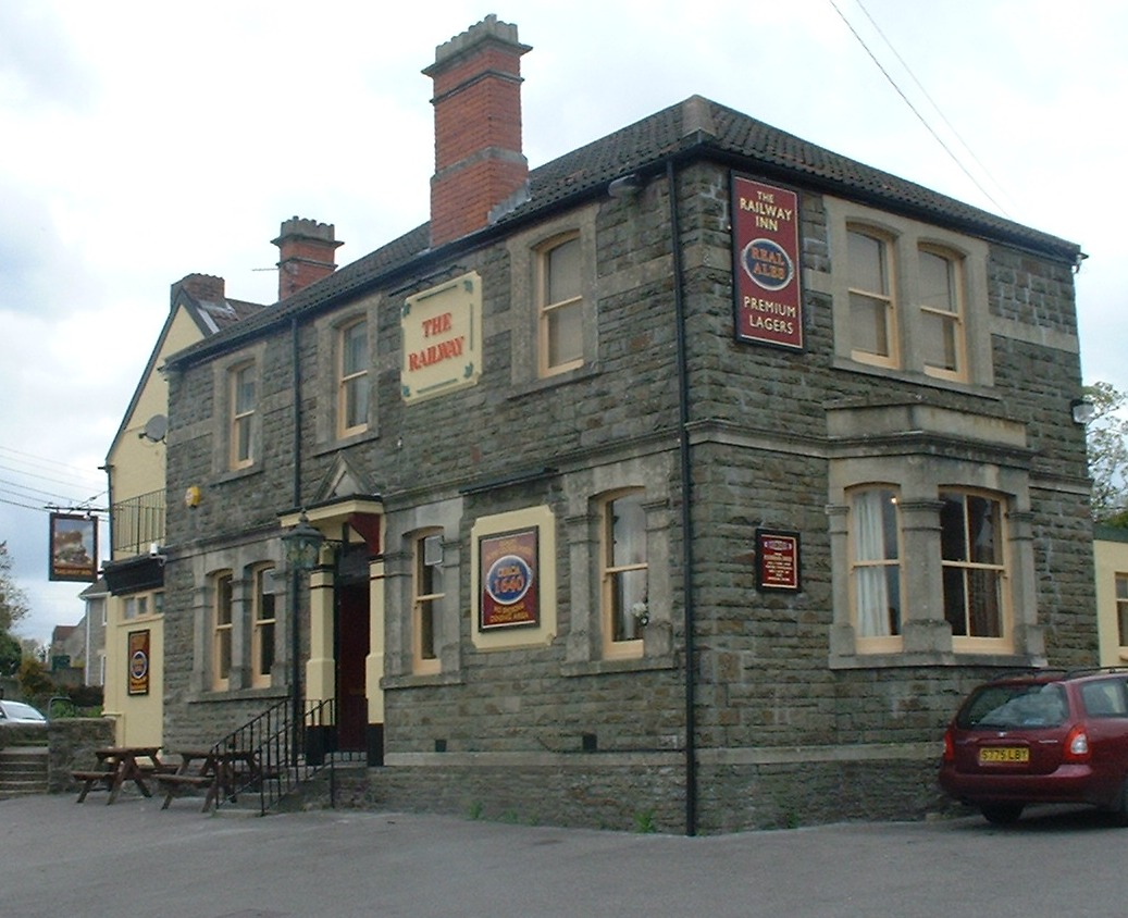 The Railway Arms at Clutton. Taken by Rod Ward 27th April 2006